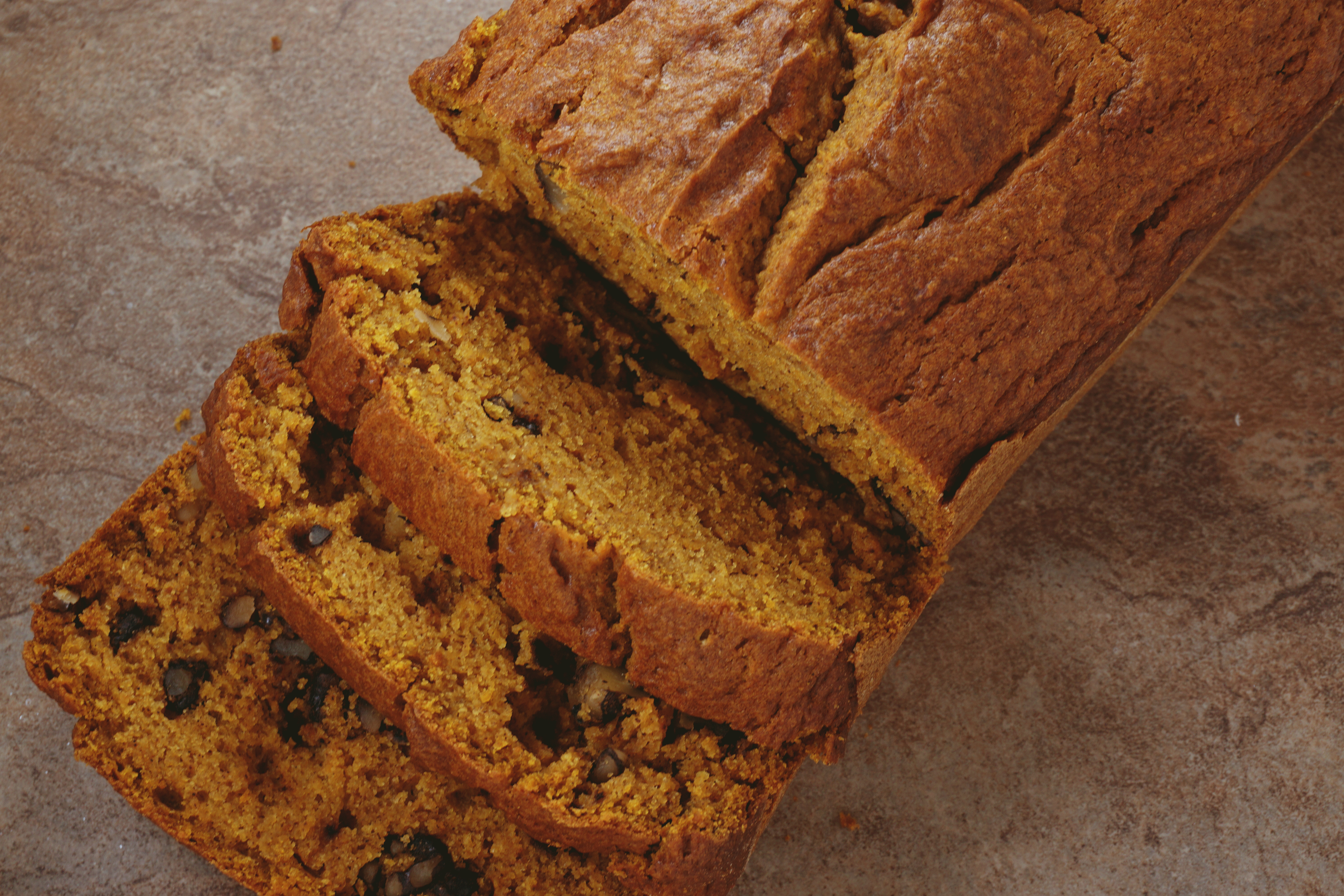 A delicious loaf of homemade pumpkin walnut bread.